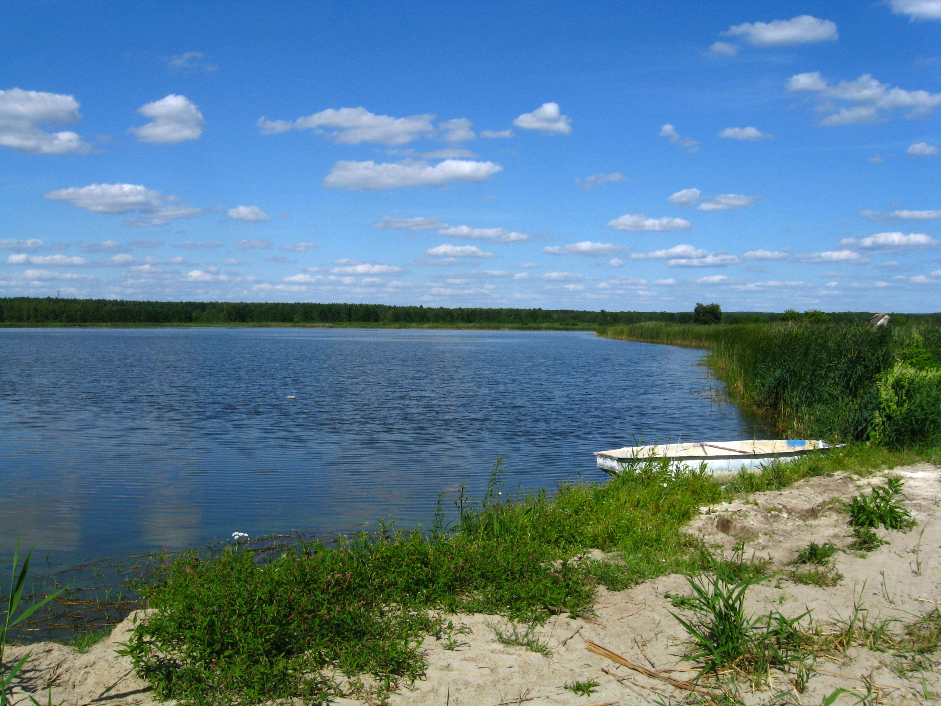 Nowosiółki — Popielewo ponds.